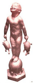 "Turtle Baby", by Edith Barretto Parsons, sculptor, from a 1921 publication.